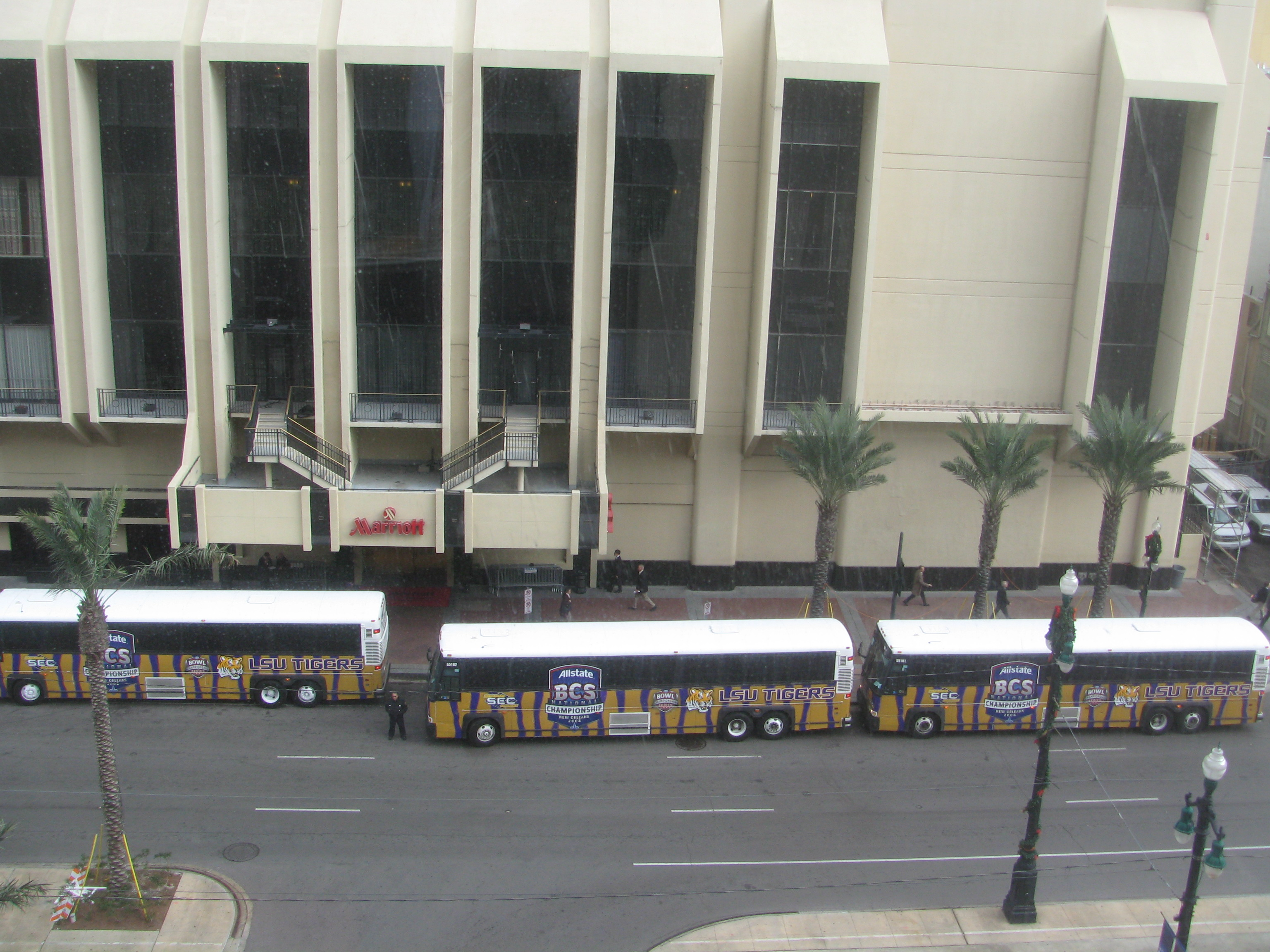 LSU Tigers football bus during championship week 2008